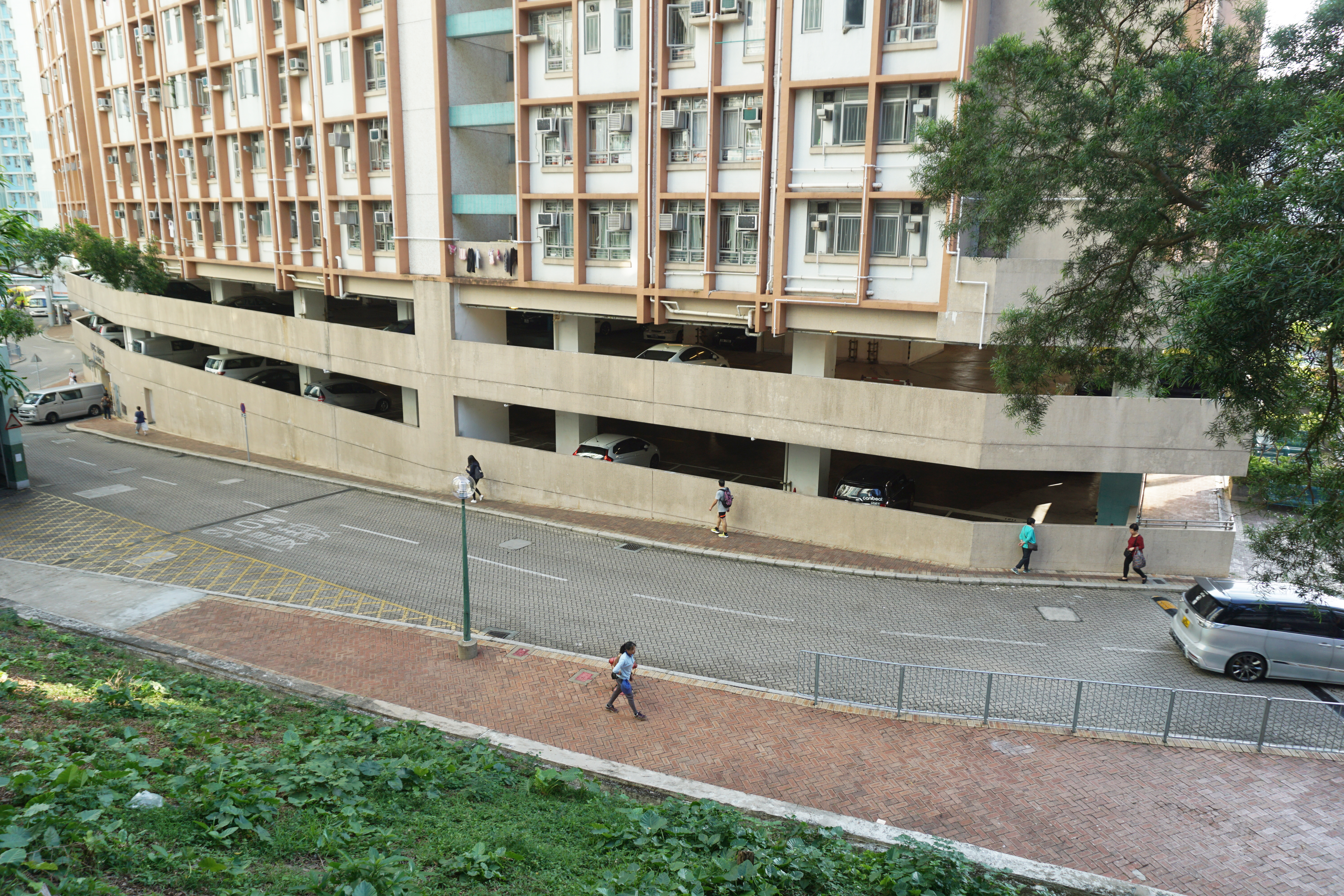 Tsz Ching Estate in Tsz Wan Shan, Hong Kong.